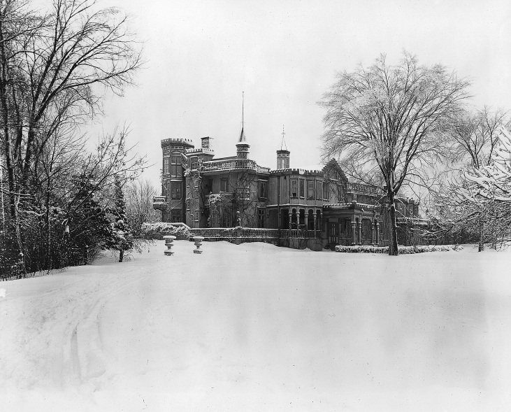 Photograph, Hugh Paton's House, L'Abord à Plouffe, near Montreal, QC, Silver salts on film - Gelatin silver process - 20 x 25 cm